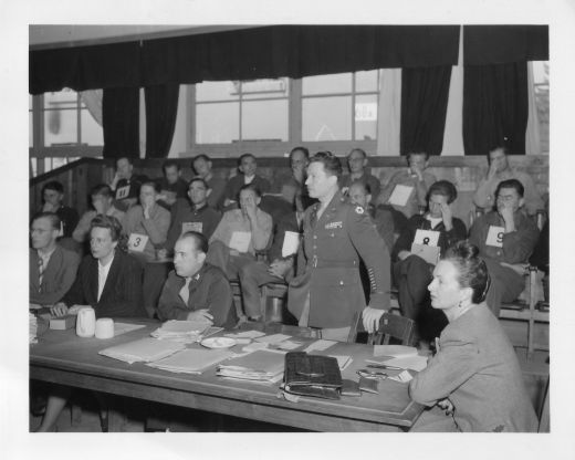 19 Sept. 1947. Capt. Paul D. Shrader, seated, defense counsel member, and Maj. Leon B. Puhllada, defense counsel member, are shown during the trial of the Nordhausen concentration camp atrocities. The 19 men accused of the crimes are shown in the background.